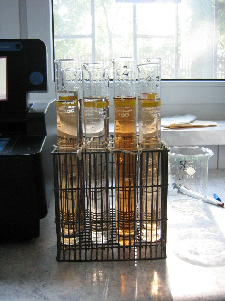 Nessler cylinders. Iron assay.